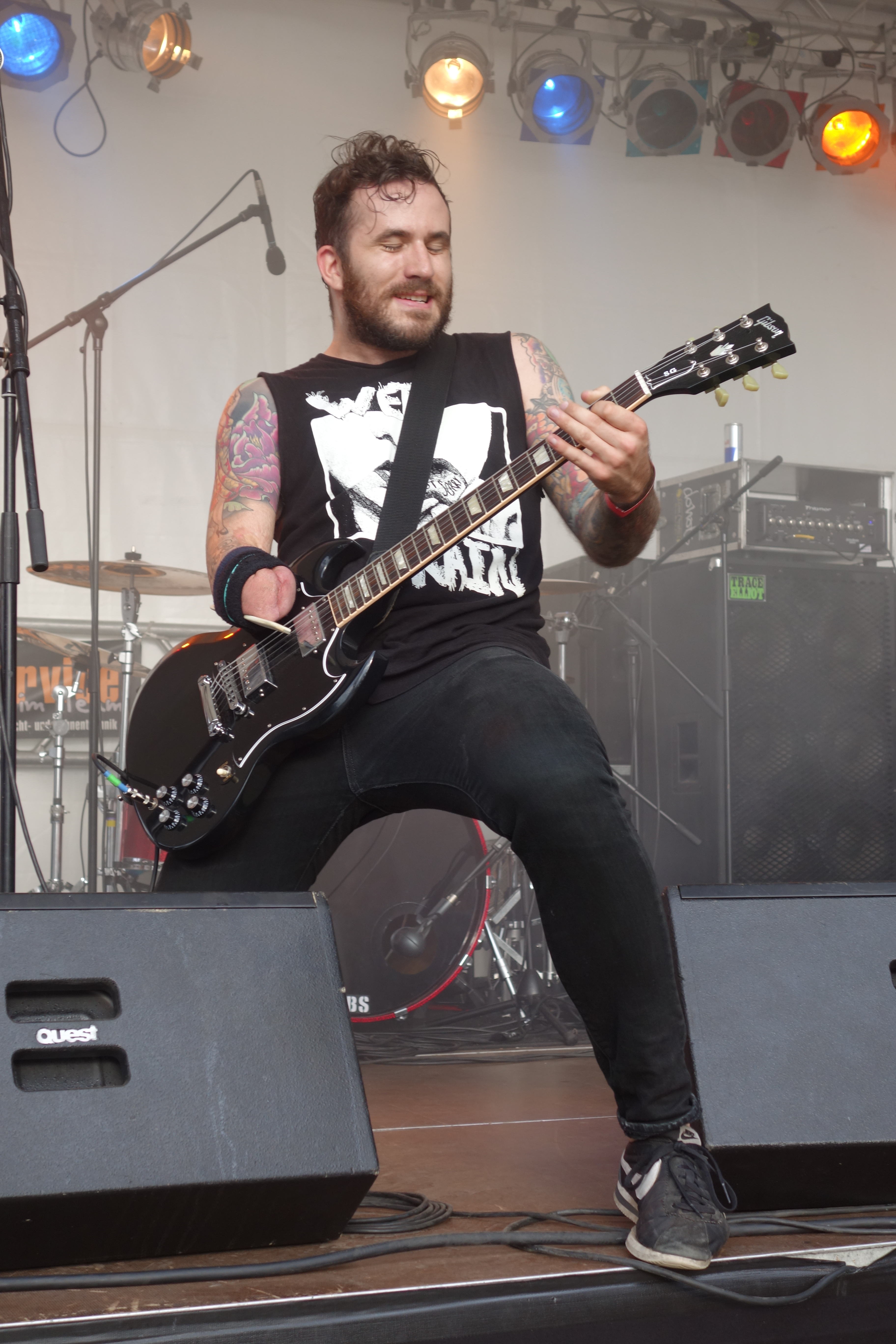 Dan Aid of Authority Zero live at Museumsuferfest Frankfurt 28th August 2016